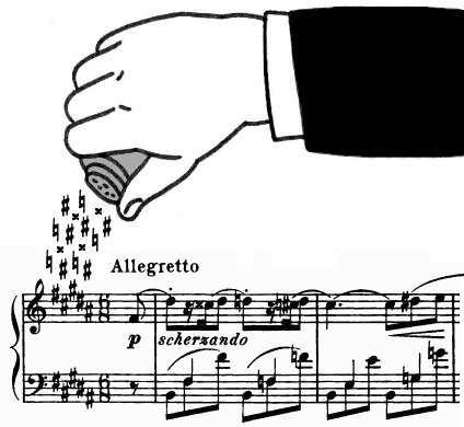 Dessin : on a partition of a Frédéric Chopin pianist hand sprinkles a score sharps, naturals, etc.